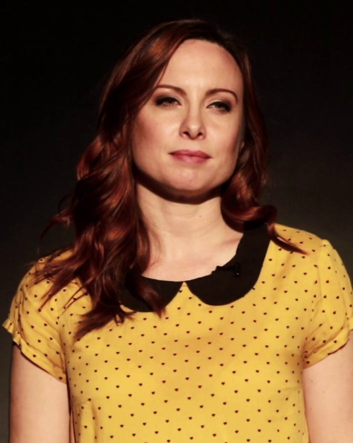 NYC-based actress Jayme Lake sings “If I Didn’t Believe in You” from the musical The Last 5 Years, music and lyrics by Jason Robert Brown.